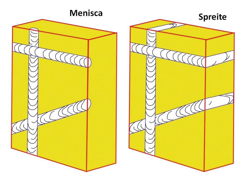 Diagram showing difference between spreiten and meniscate burrows in trace fossils. Modified from Figure 3 in Chamberlain, C.K. (1978). Trace Fossil Concepts - SEPM Short Course No. 5. Oklahoma City: Society of Economic Paleontologists and Mineralogists. p. 144.